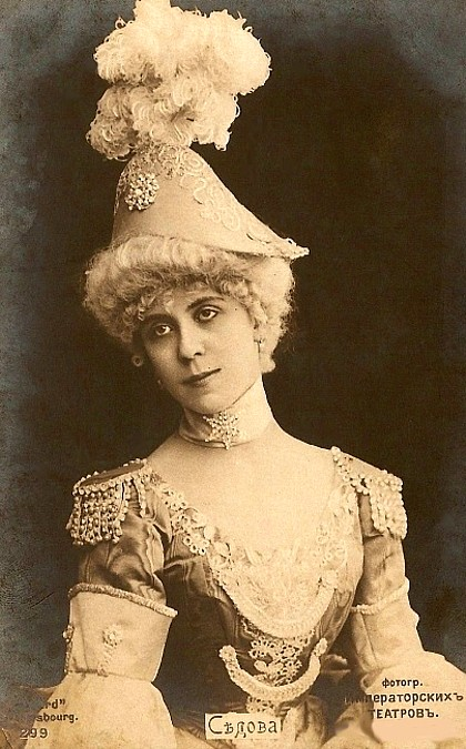 The Russian ballerina Julia Sedova costumed as the character Columbine for Act II of the choreographer Marius Petipa and the composer Riccardo Drigo's ballet "Les millions d'Arléquin" (a.k.a. "Harlequinade").